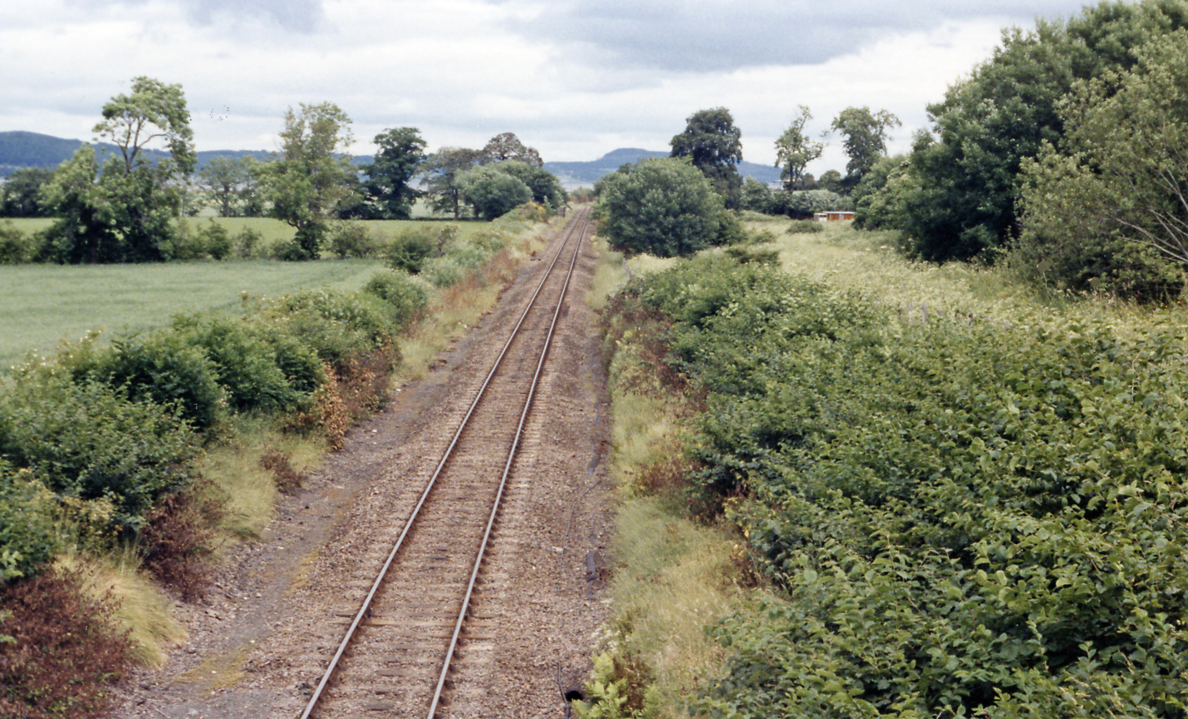 Site of Clunes station, 1986, View eastward, towards Inverness: ex-Highland Railway, Inverness - Wick etc. 'Far North Line'. There is not a trace of the station, which had been closed to passengers on 13/6/60, to goods on 31/1/64. In the distance across the Beauly Firth is the Black Isle peninsula. (This site was along a very muddy track, almost impassable by car).